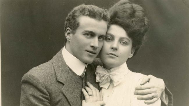 Photograph of Australian speech therapist Lionel Logue with Myrtle Gruenert at the time of their engagement in Perth in 1906.